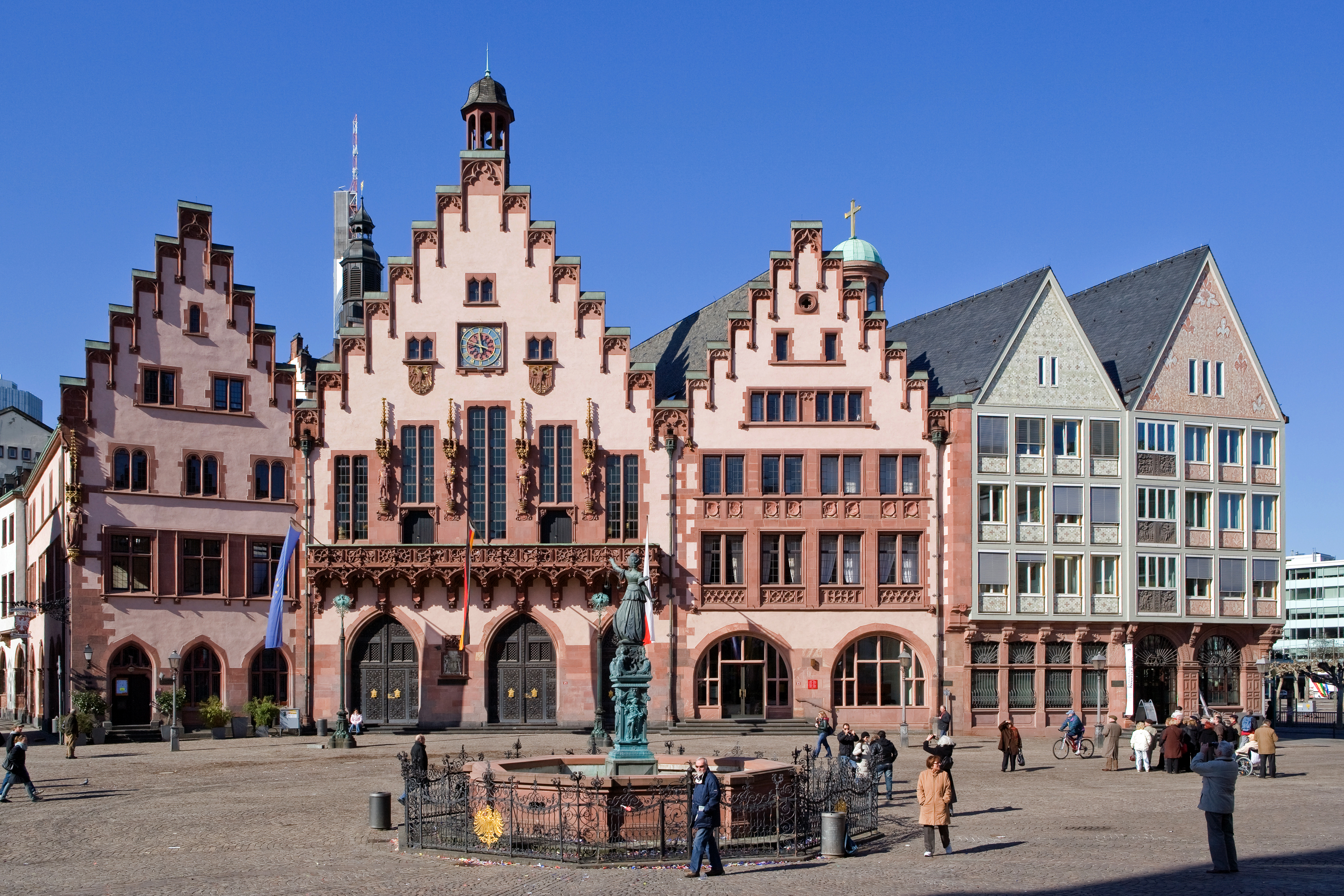 Frankfurt on the Main: Roemerberg 19–27 as seen from the Roemerberg from southeast